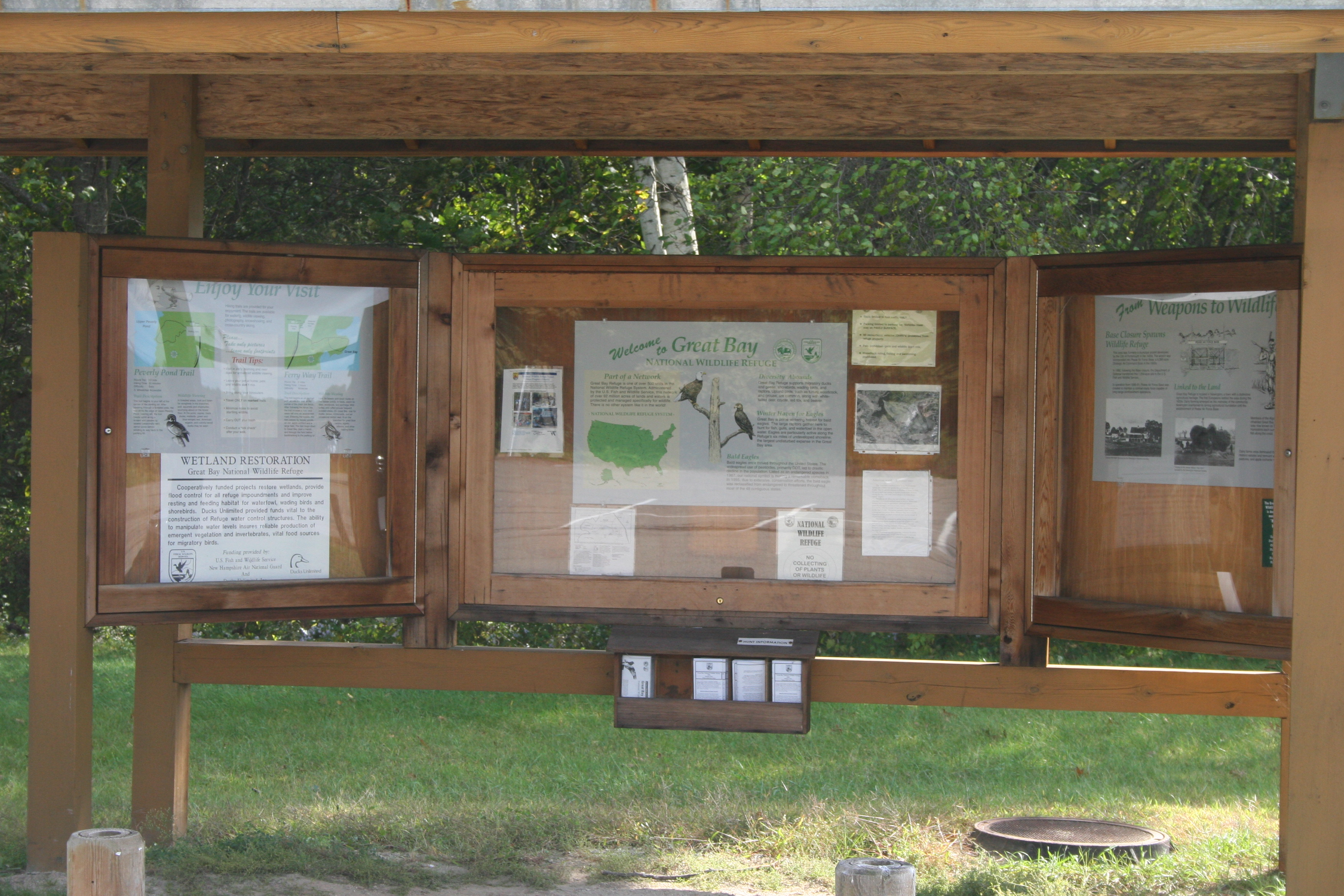 Information kiosk at Great Bay National Wildlife Refuge, Newington, NH. Credit: Greg Thompson/USFWS